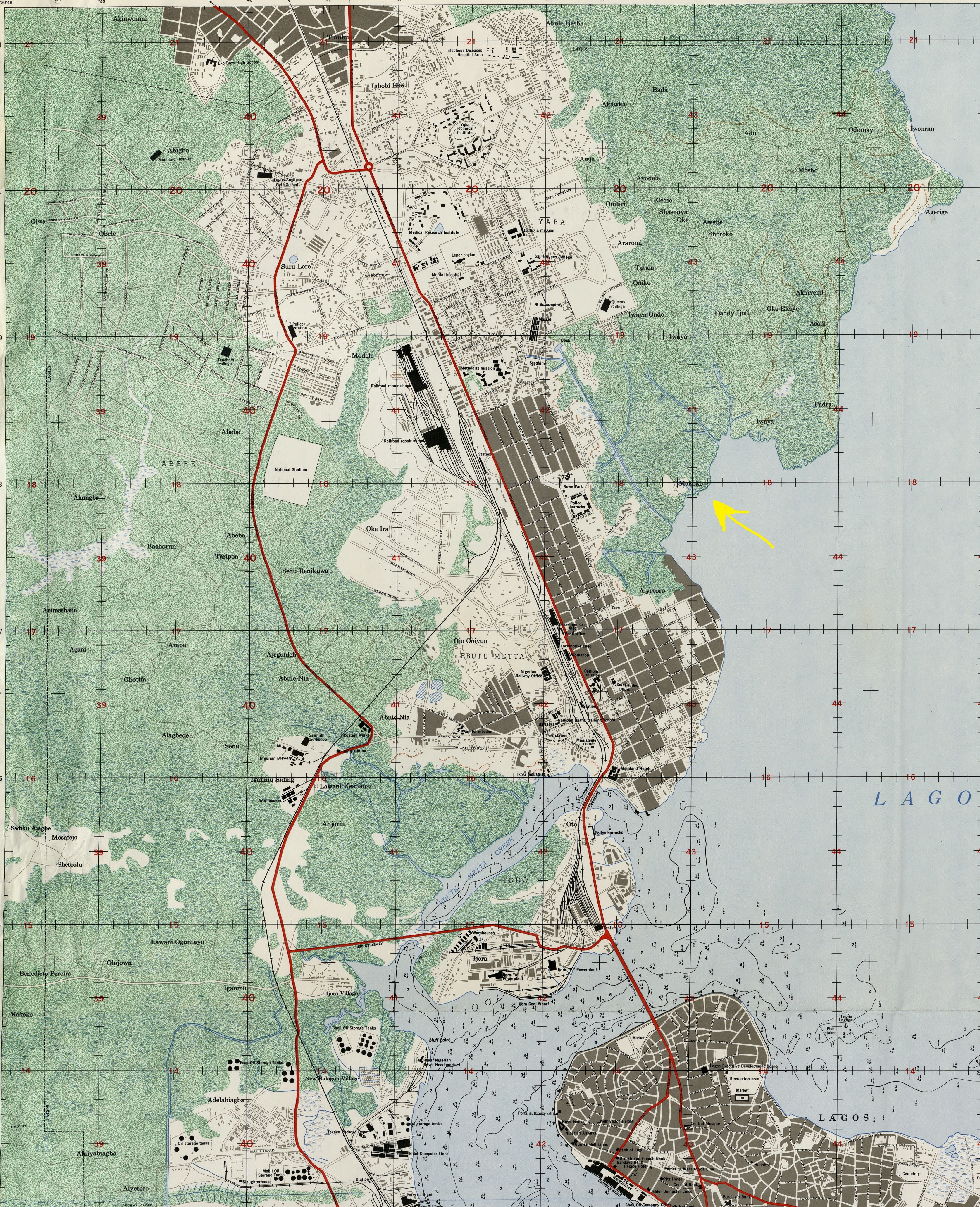 Detail of Map of Lagos, Nigeria, 1962. Makoko indicated by yellow arrow.